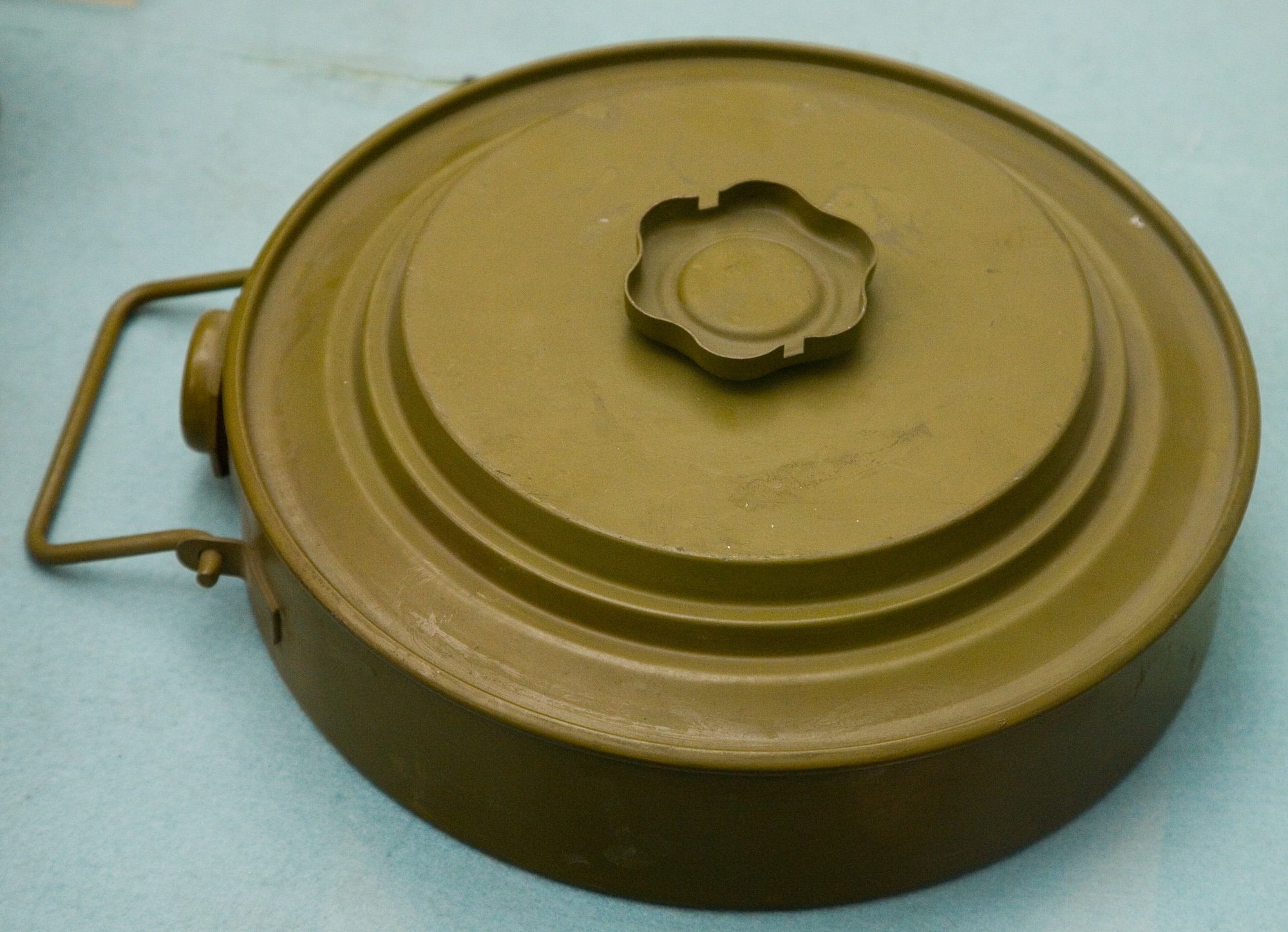 A Chinese Type 59 metallic anti-tank mine Main Battle Tank on display at the Beijing Military Museum.